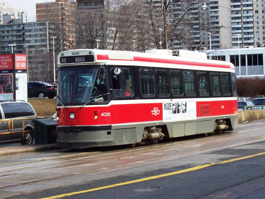 TTC CLRV #4028 on the 512 St. Clair Line, at Bathurst Avenue, before contruction